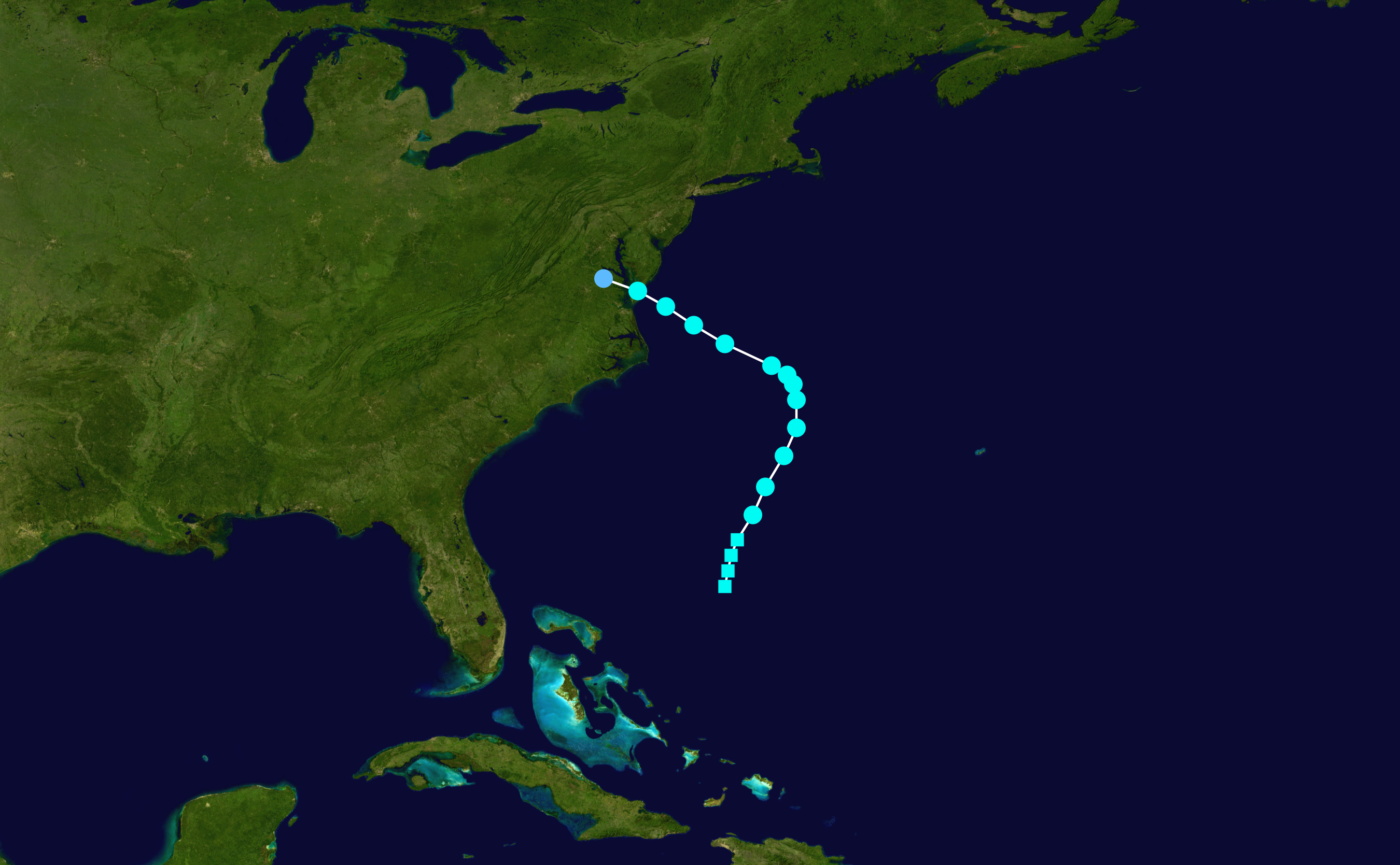 Tropical Storm Dean (1983) track. Uses the color scheme from the Saffir-Simpson Hurricane Scale.